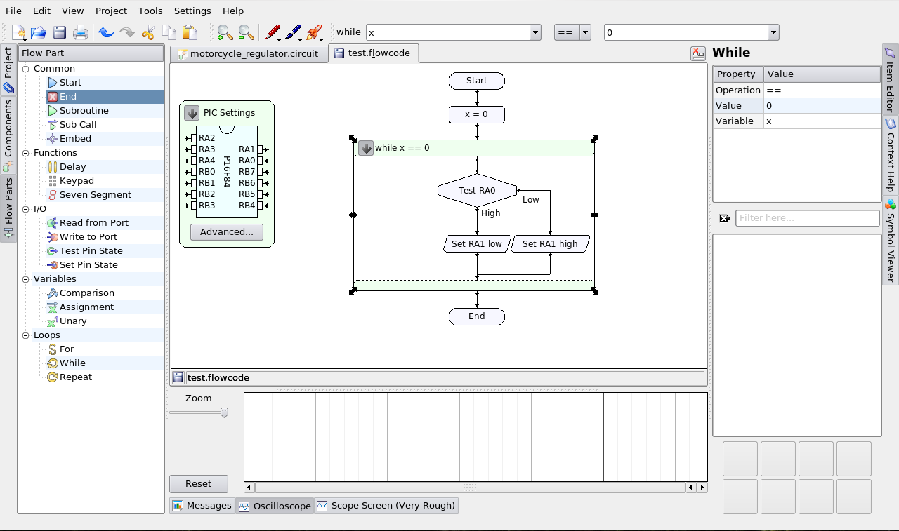 Using Ktechlab's Flowchart (flowcode) visual programming feature to program a microcontroller (pic 16f84 in this picture)